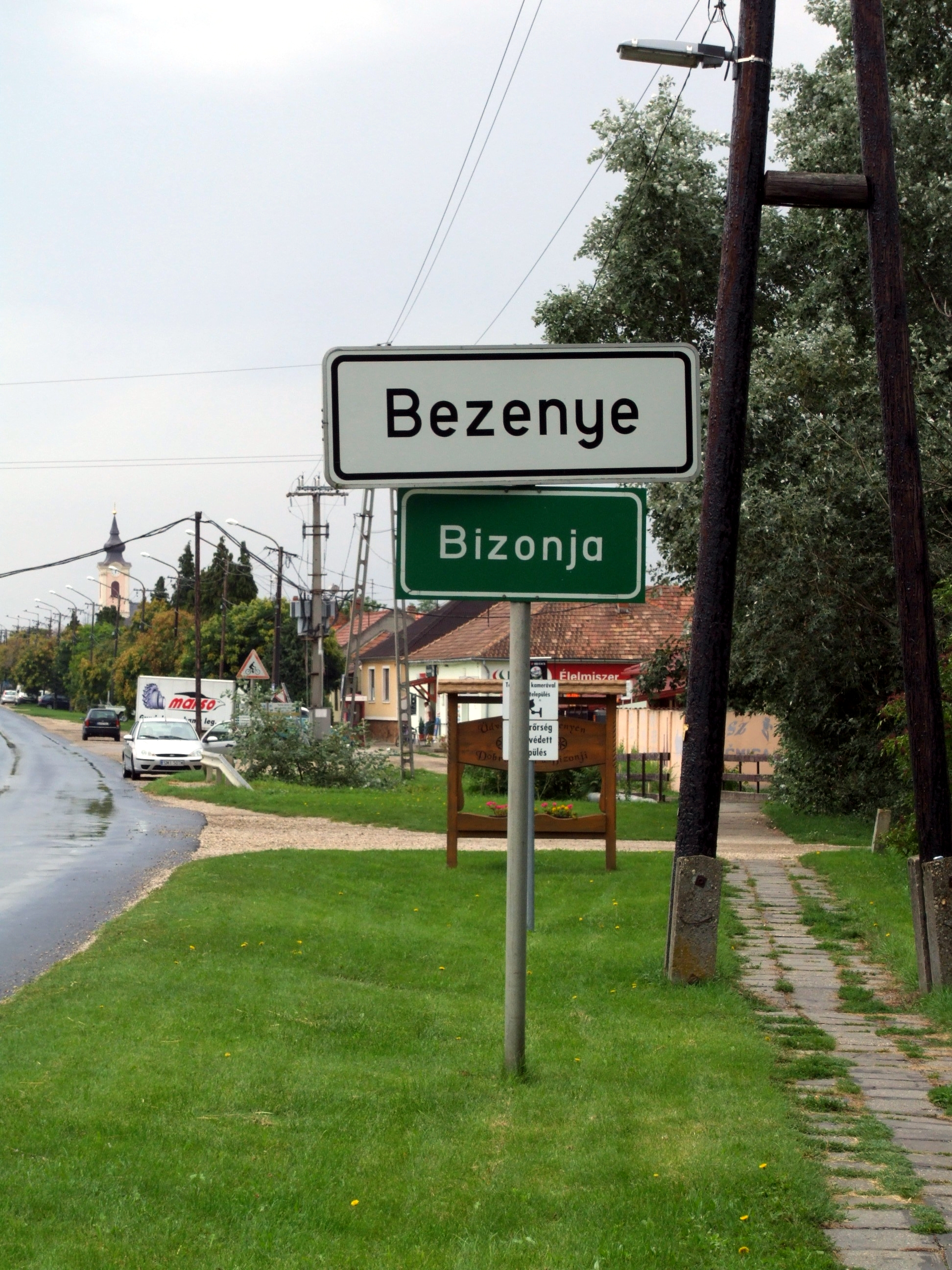 Bezenye (Bizonja), Hungary. Bilingual (hungarian-croatian) city limit sign